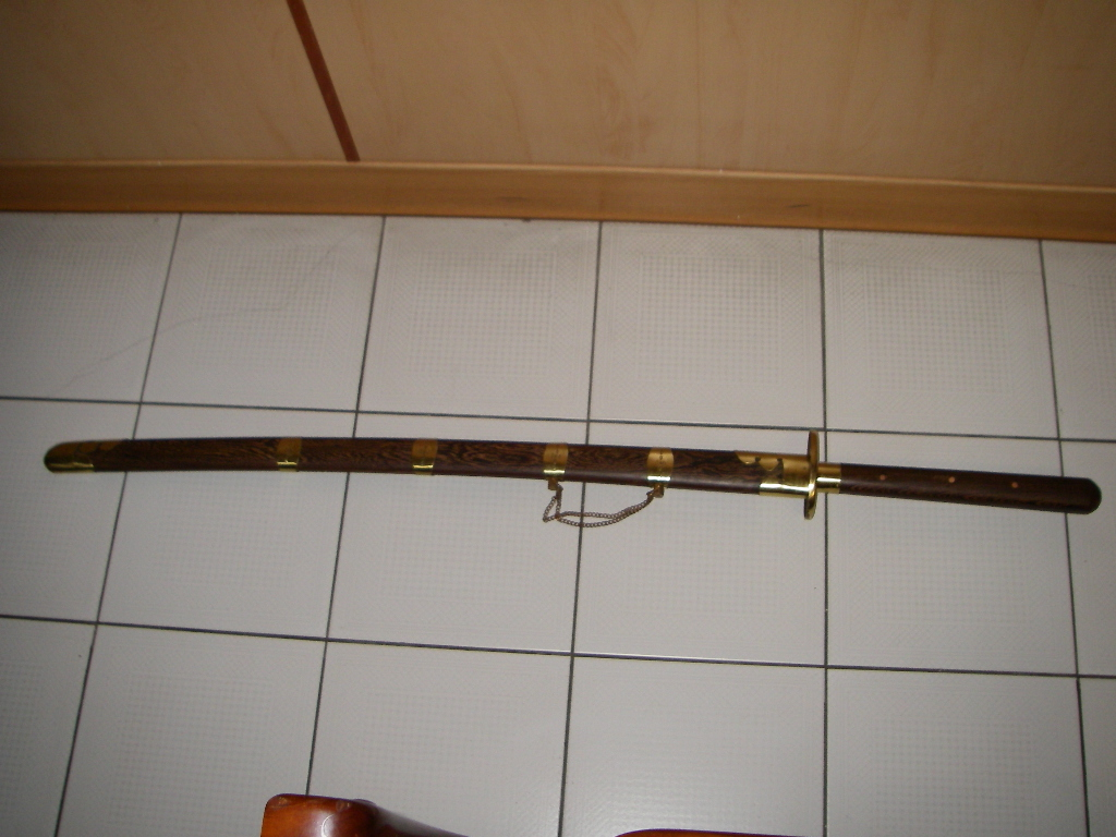 a Chinese weapon.A two hands using sword.It's in Ming dynasty affected by Japanese takana.